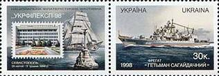 Stamp of Ukraine